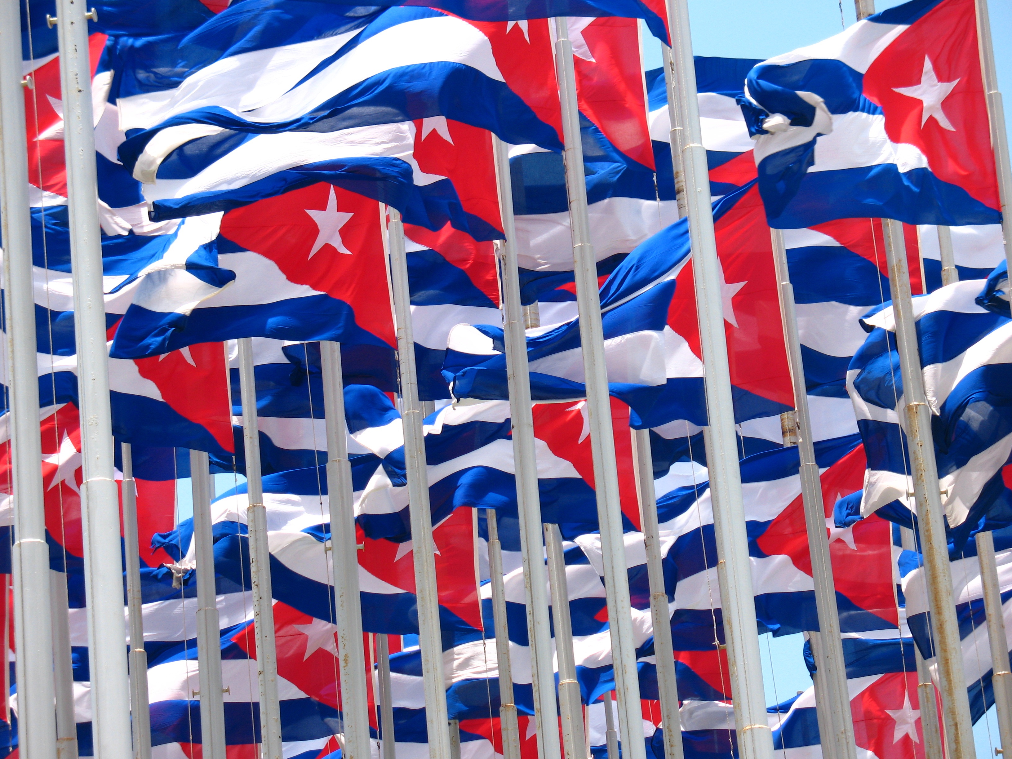 Flags of Cuba in La Habana